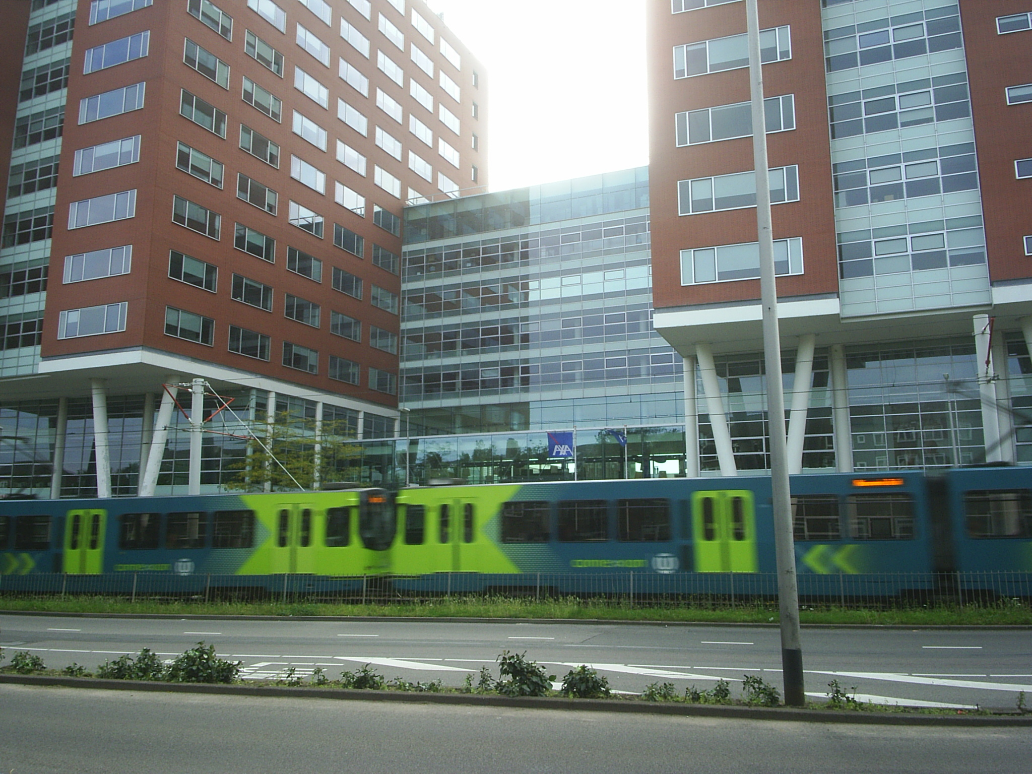 Building of AXA in Utrecht. Sneltram to Nieuwegein on the front